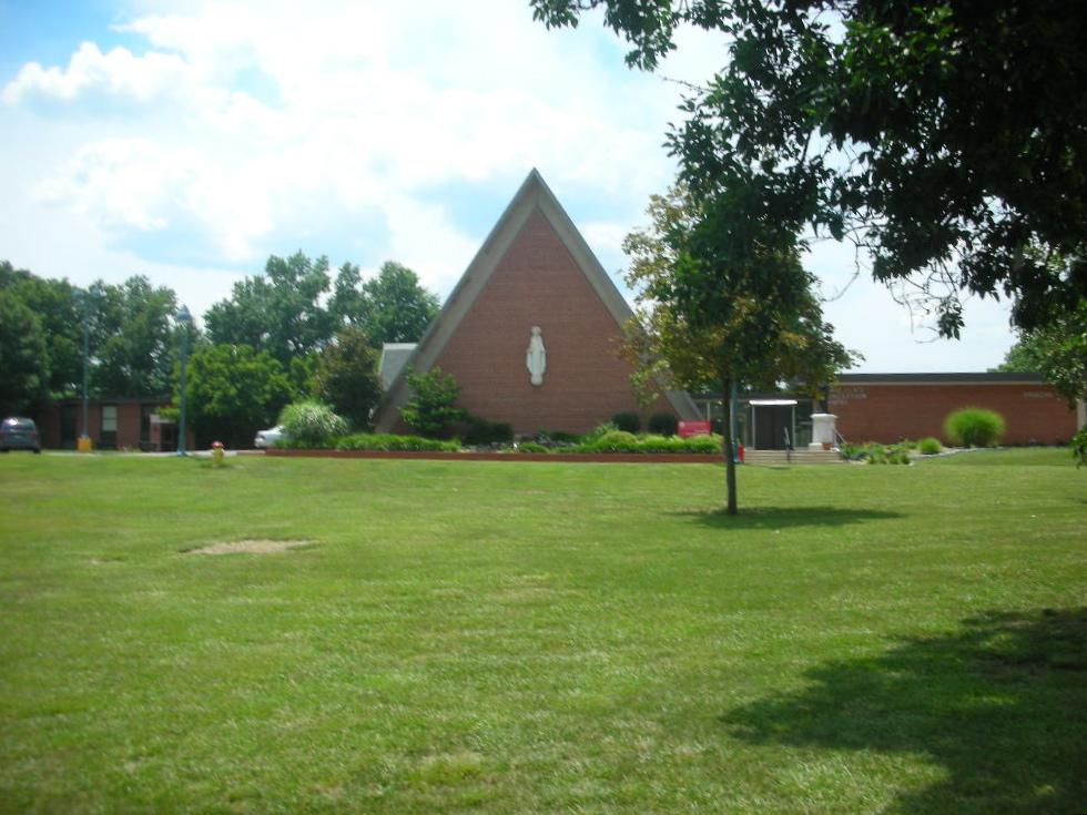 Chaminade College Preparatory School campus in St. Louis County, Missouri